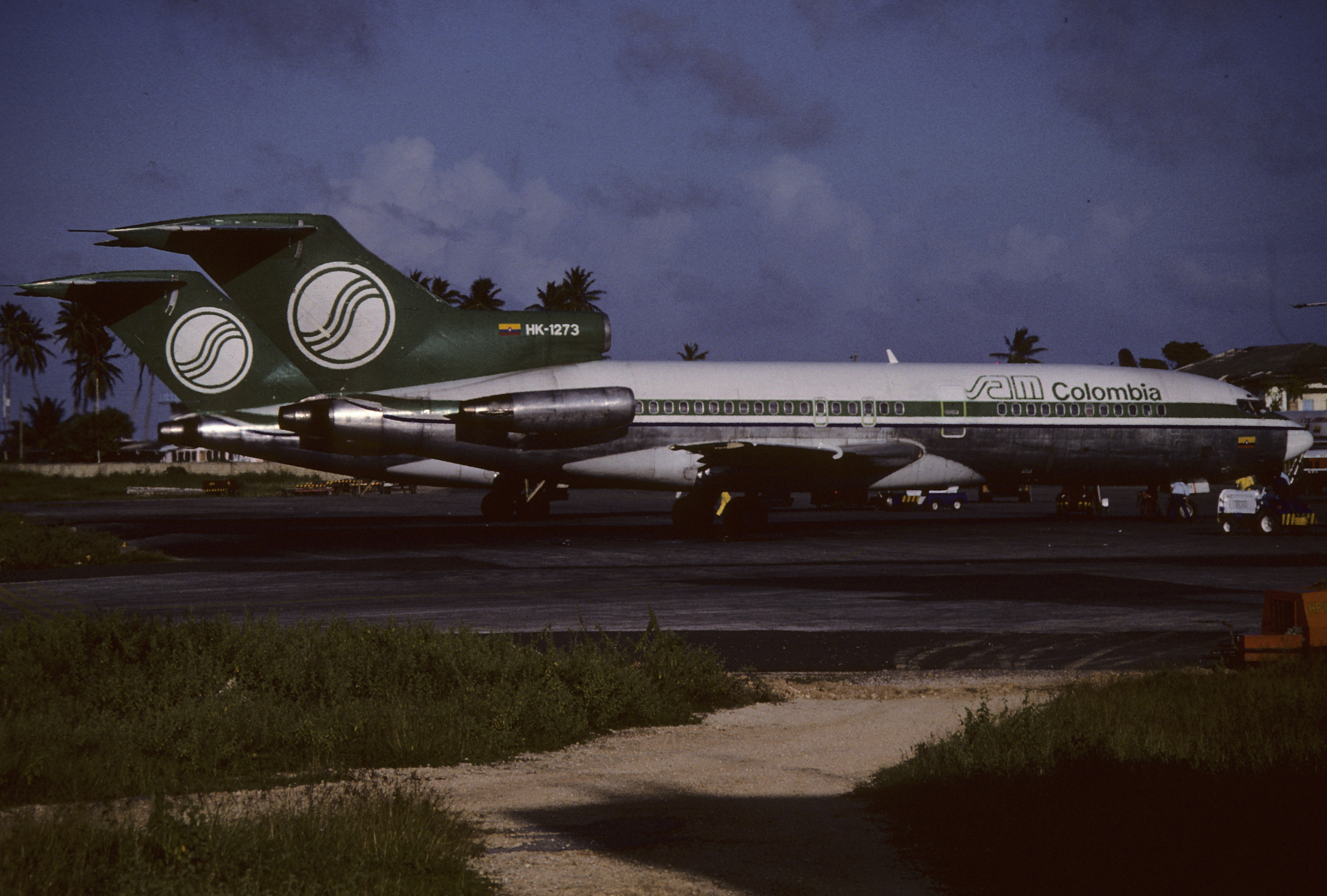 SAM Colombia Boeing 727-24C; HK-1273, December 1993/DES